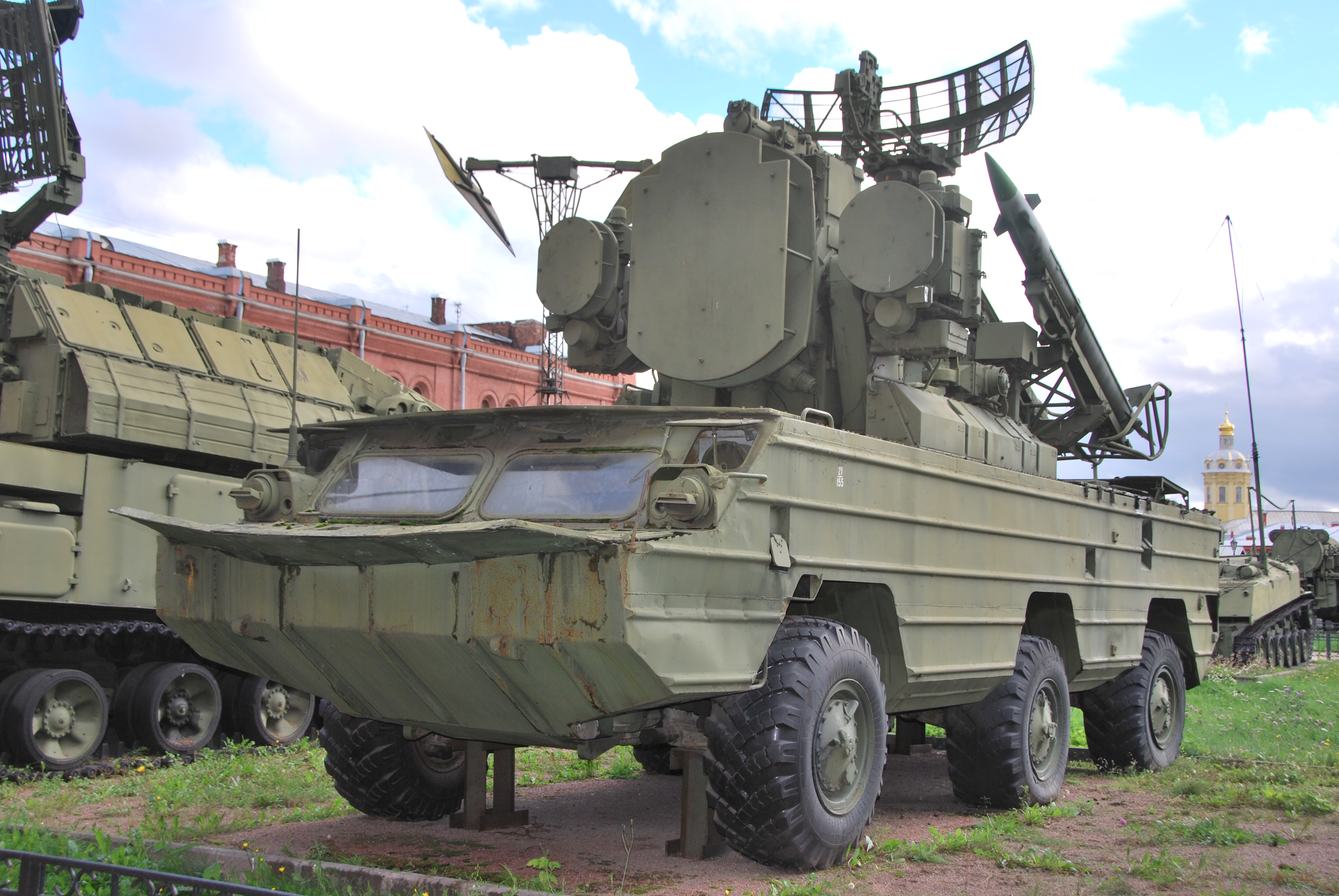 9A33 TELAR of the surface to air missile complex 9K33 «Osa» in Saint Petersburg Artillery museum